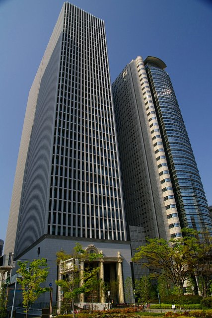 Nakanoshima Daibiru, Osaka City, Japan